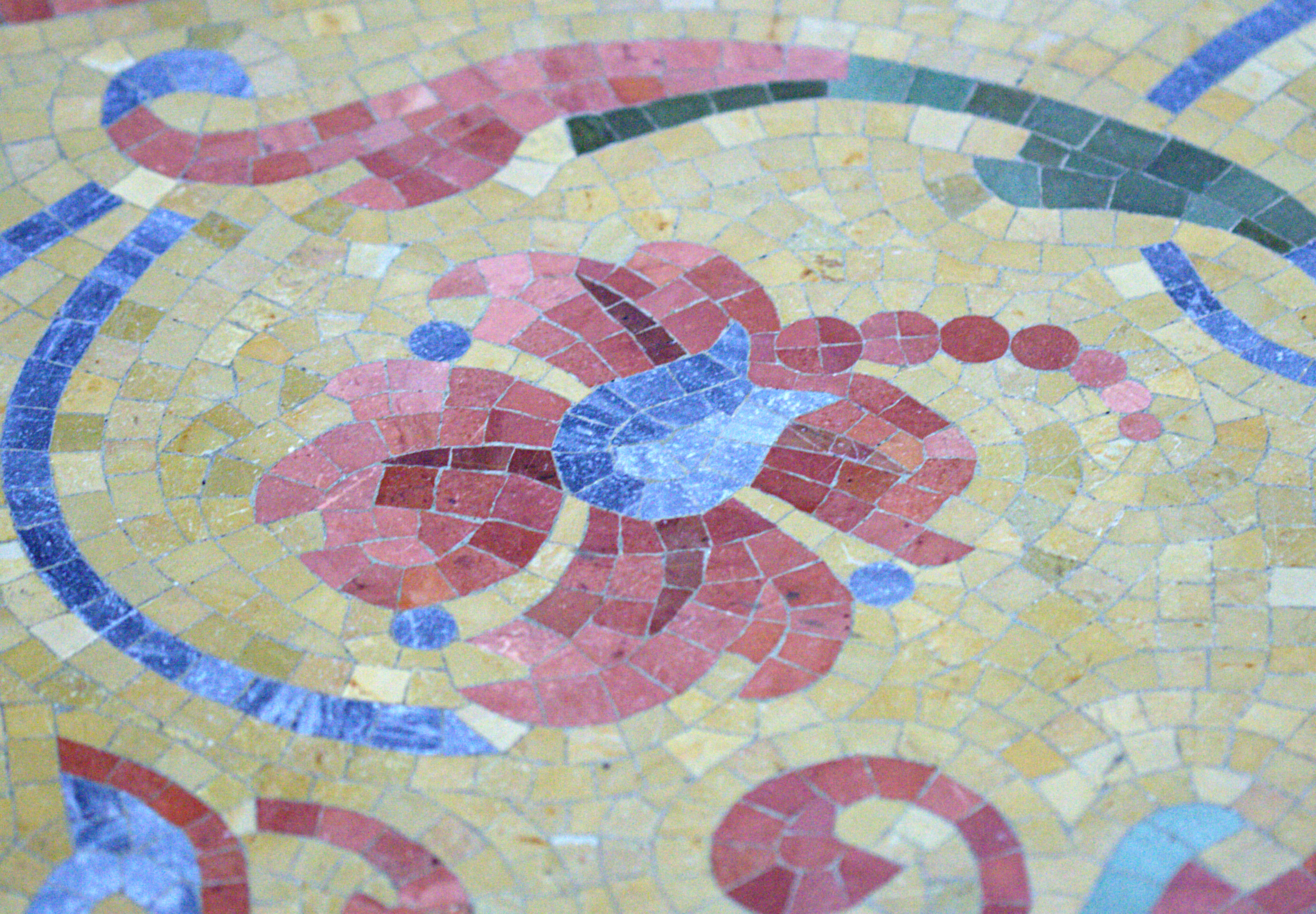 The tile floor mosaic (detail of a flower) in the entrance of the central (main) branch of the Milwaukee Public Library in Milwaukee, Wisconsin. These floors were hand-laid by master Italian craftsmen who had settled in Milwaukee. Tessera, the small squarish pieces of colored marble or tile, were used in the making of the mosaic floors.